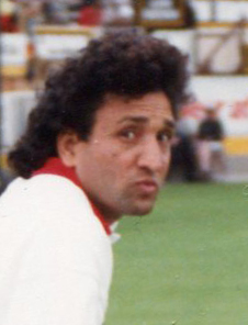 Pakistani cricketer Abdul Qadir, at the Richard Hadlee testimonial match, Lancaster Park, Christchurch, on 25 March 1990.